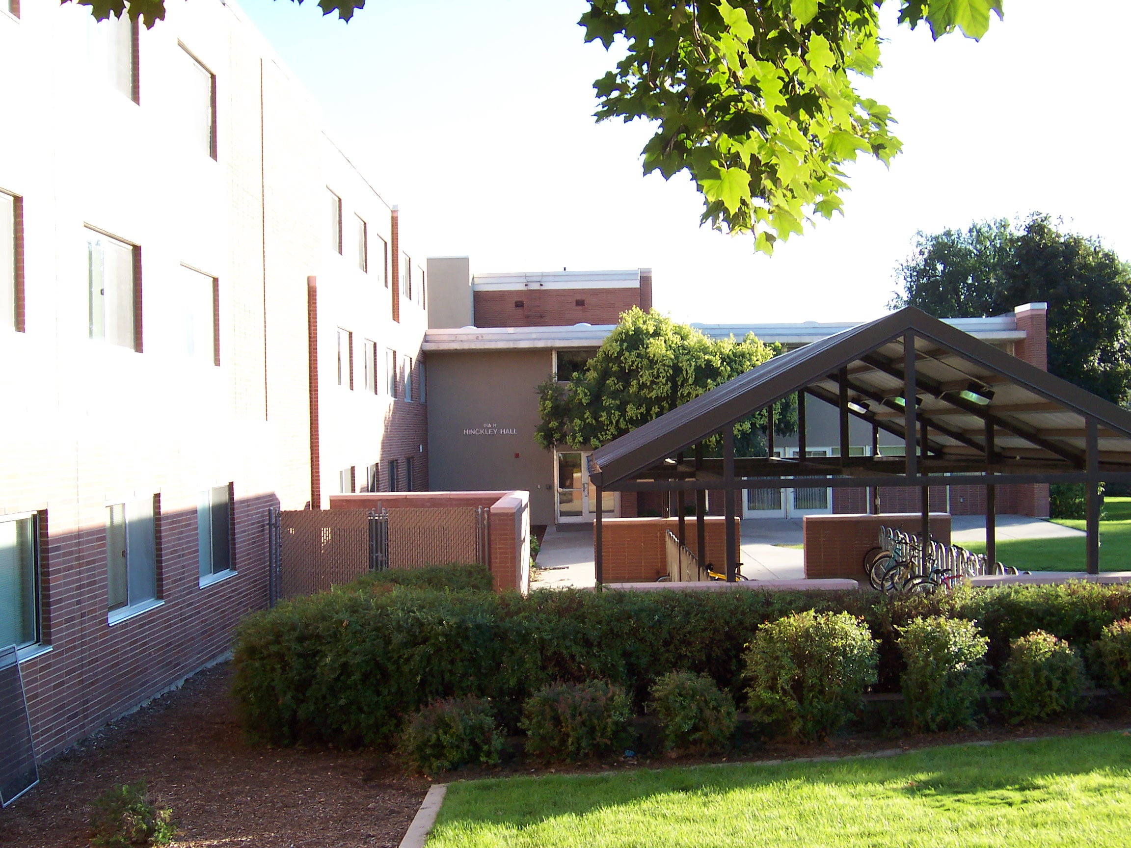 Photograph of Helaman Halls (B) Hinckley (Ira N.) Hall at Brigham Young University.